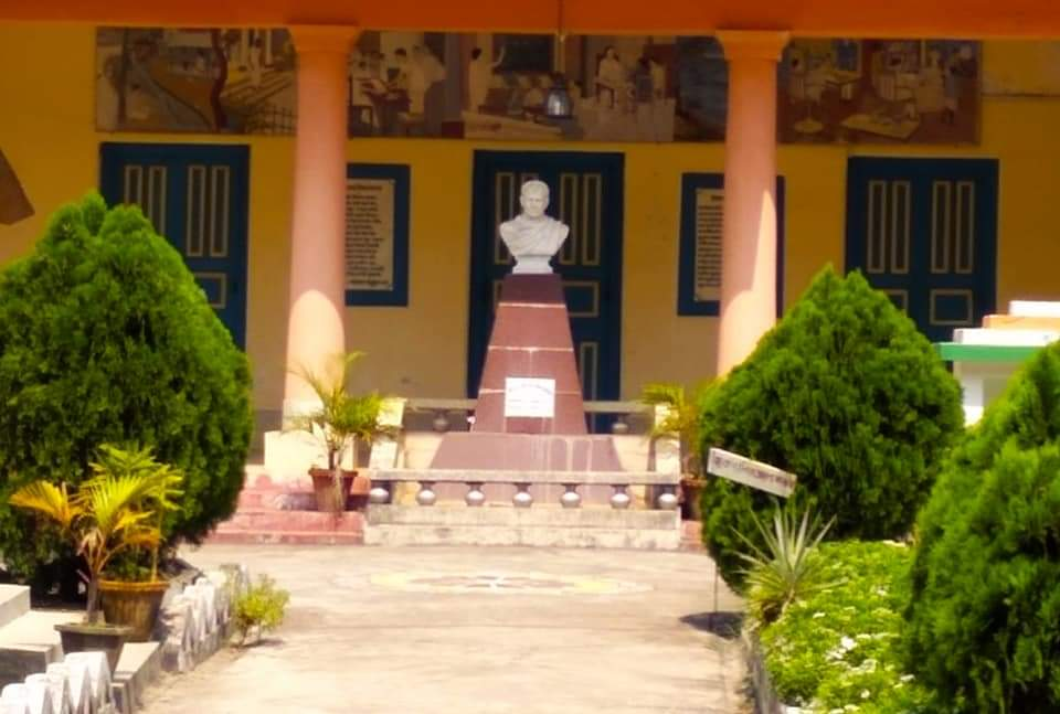 Museum at Ishwar Chandra's Birth Place at Birsingha